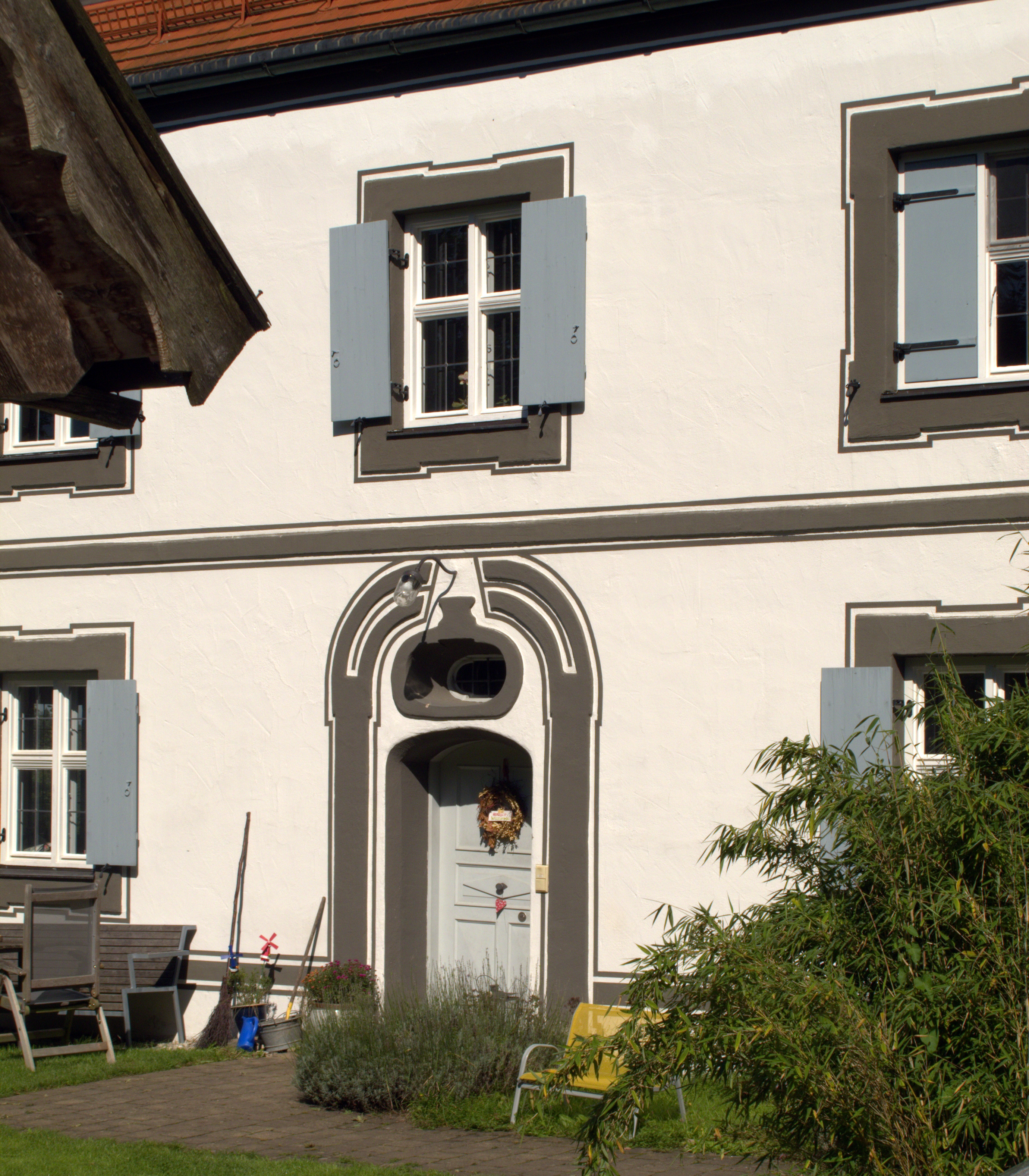 This is a photograph of an architectural monument.